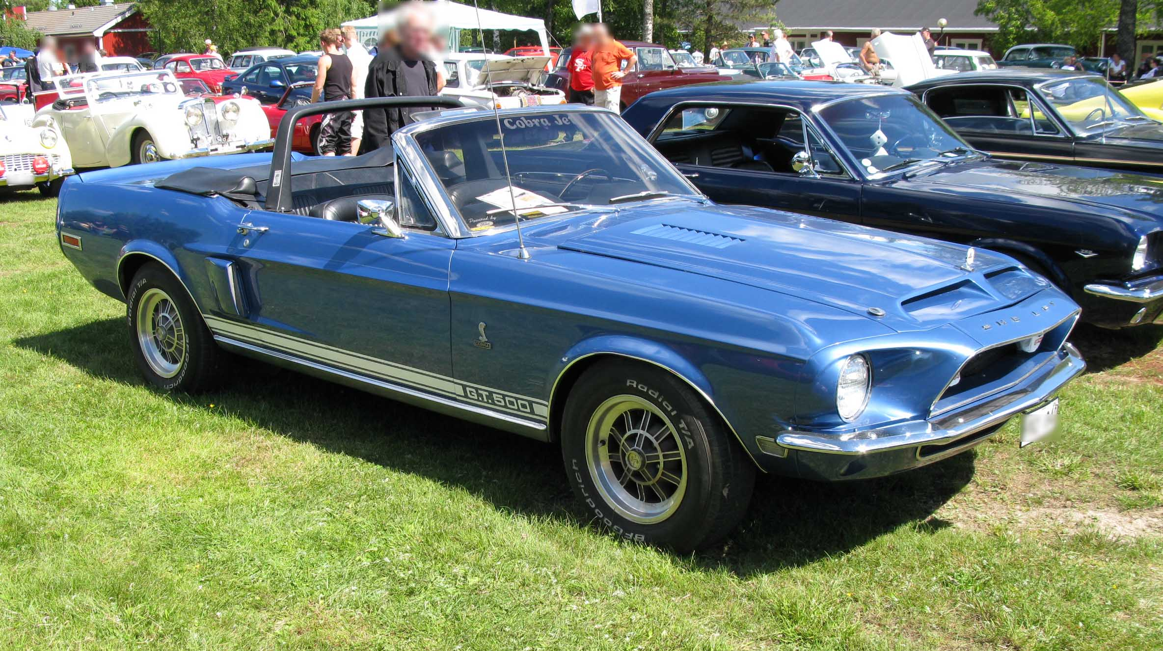 1968 Shelby GT-500.Event: Ånnaboda Classic Motor 2011